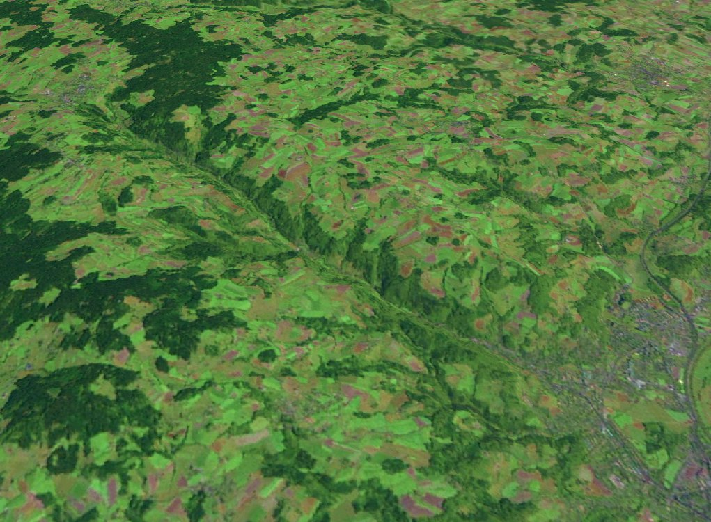 The Haselgraben , a valley near Linz, Austria. Urfahr, part of the city of Linz, is located at the southern end of the valley (at right in the image), while the village of Hellmonsödt is at the northern (left) end. Vertical exaggeration 1,5x.